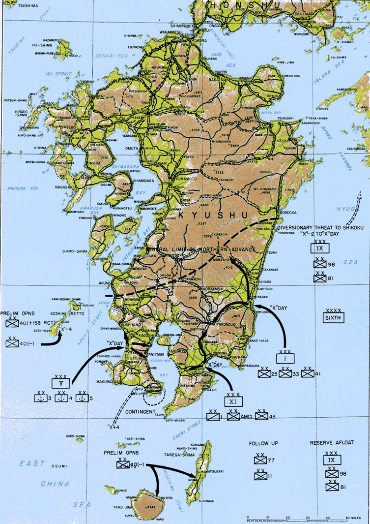 Operation Olympic, part of Operation Downfall from Originally from "Reports of General MacArthur" -1966 Government printing office -- public domain